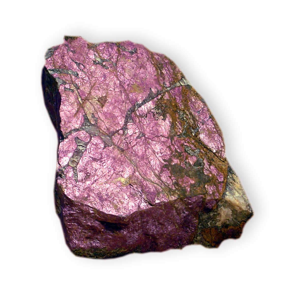 These mineral images are free to use how you wish.